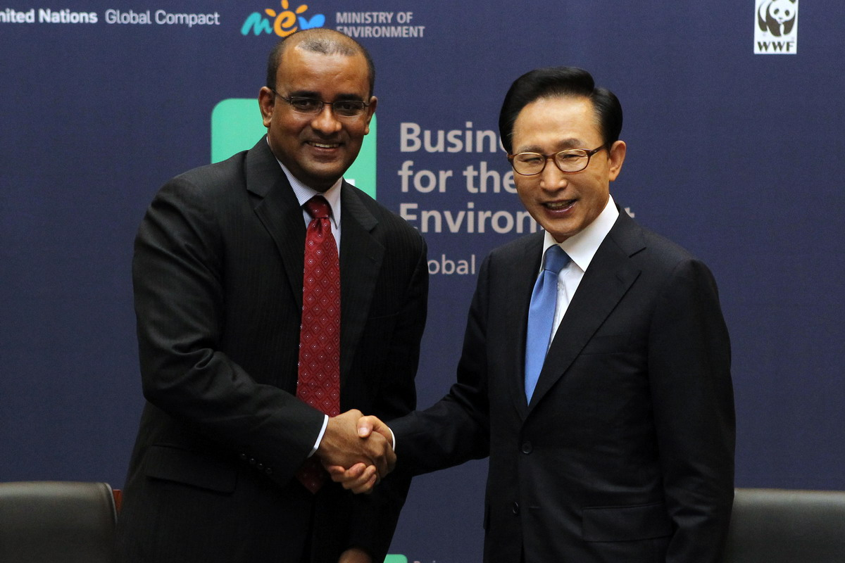 During the the Business for the Environment (B4E) Global Summit, President Lee was joined by President of Republic of Guyana Bharrat Jagdeo.